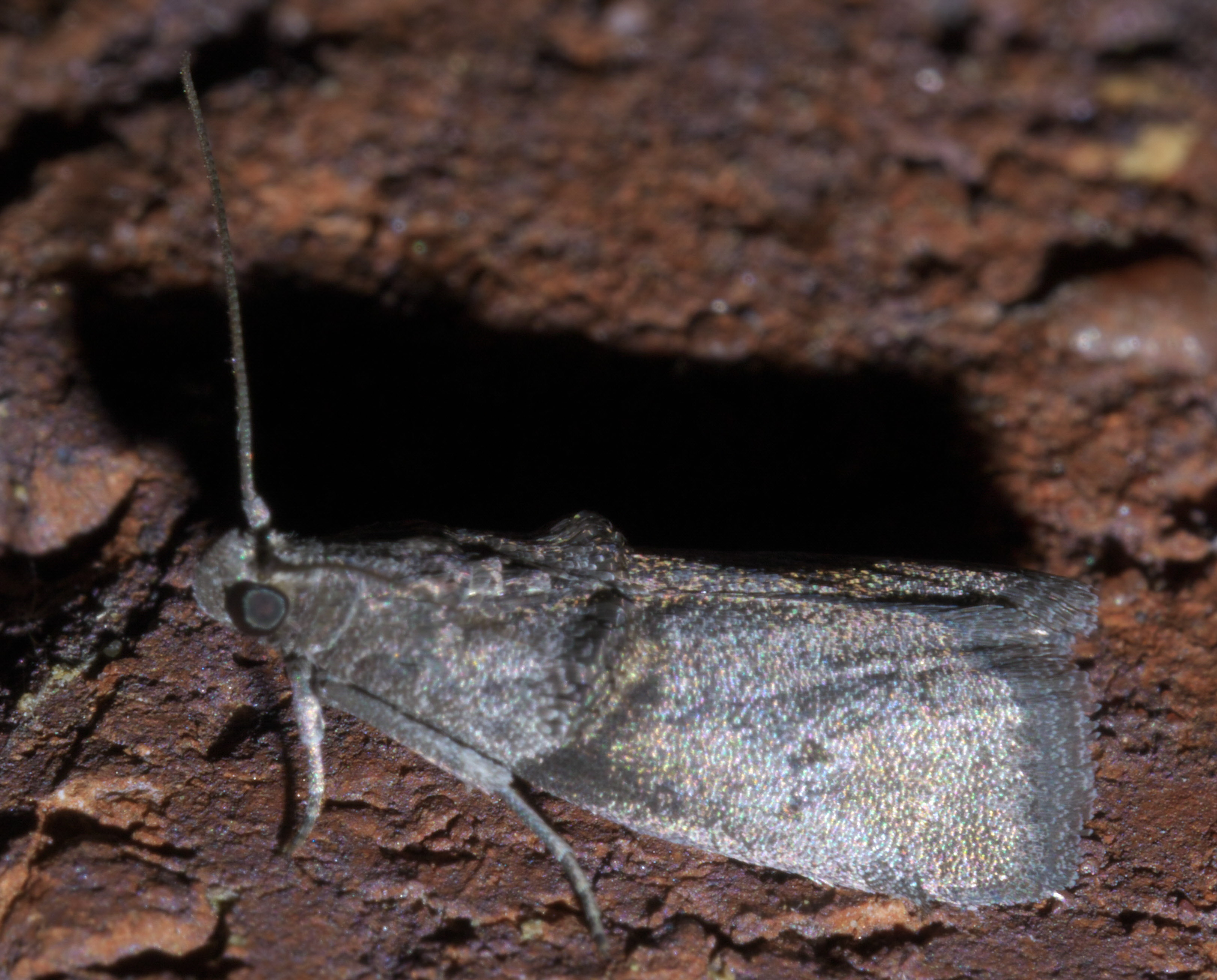 Acrobasis caryae, hickory shoot borer, ID Confidence: 86